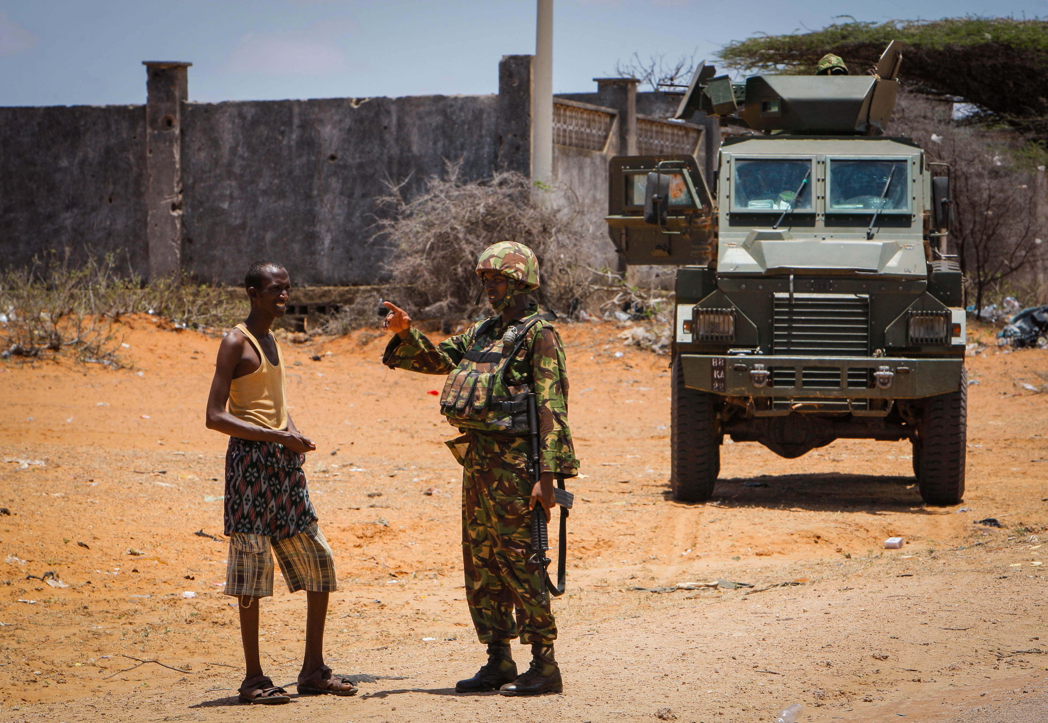 SOMALIA, Kismayo: In a handout photograph taken 05 October and released by the African Union-United Nations Information Support Team 06 October, a soldier serving with the Kenyan Contingent of the African Union Mission in Somalia (AMISOM) gestures as he talks to a Somali man at the roadside in the southern Somali port city of Kismayo. The last bastion of the once feared Al-Qaeda-affiliated extremist group Al Shabaab, Kismayo fell after troops of the Somali National Army (SNA) and the pro-government Ras Kimboni Brigade supported by Kenyan AMISOM forces entered the port city on 02 October following a two month operation across southern Somalia which saw the liberation of villages and centres along a distance of 120km from Afmadow to Kismayo. AU-UN IST PHOTO / STUART PRICE.